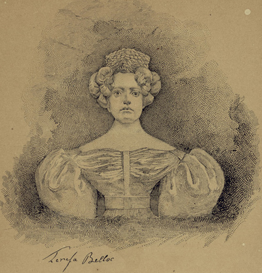 Portrait of Teresa Belloc, mezzosoprano (1784-1855).